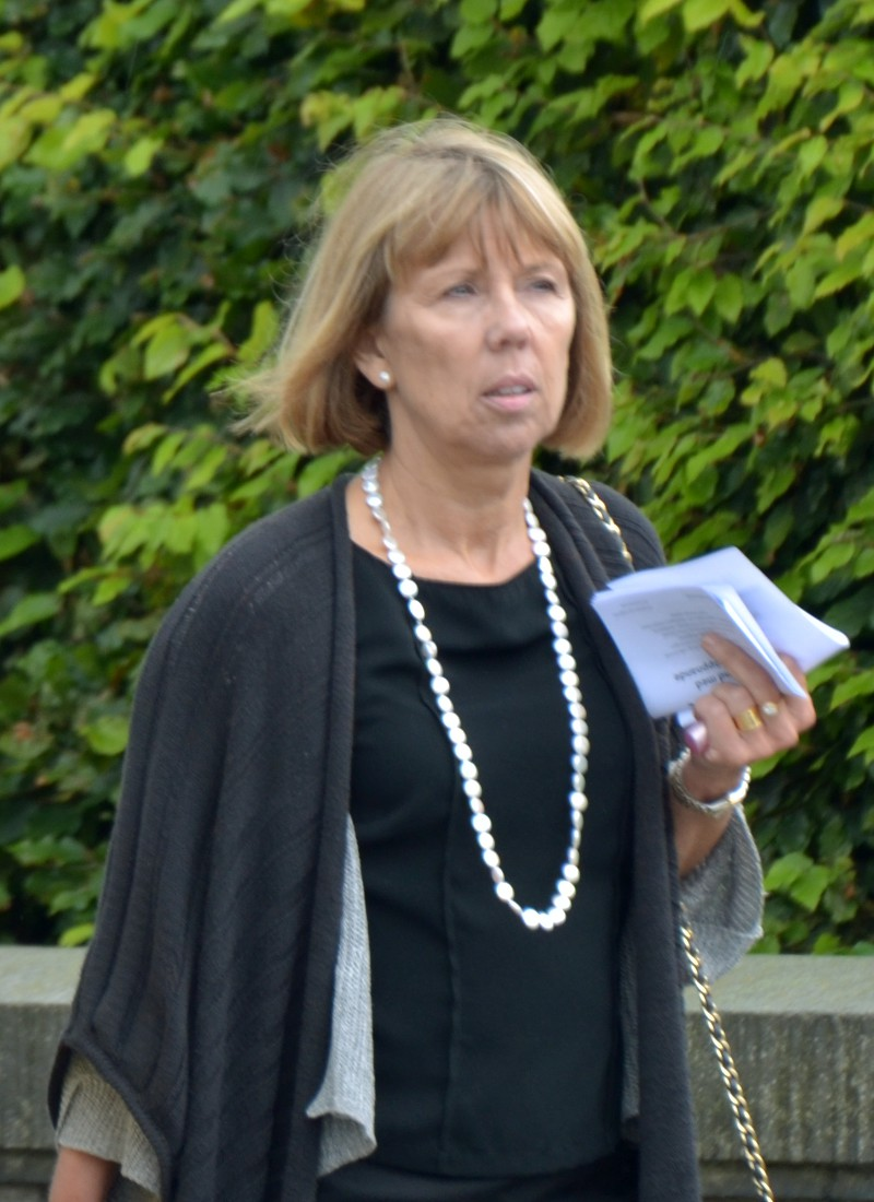 Barbro Holmberg, country governor of Gävleborg county.